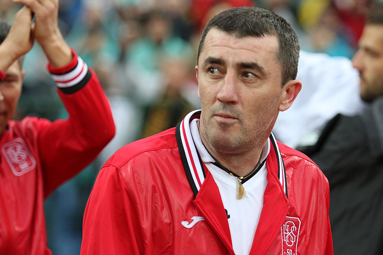 Ivaylo Yordanov - Bulgarian retired footballer. Known for his professional approach to the game, he played mainly as a striker.